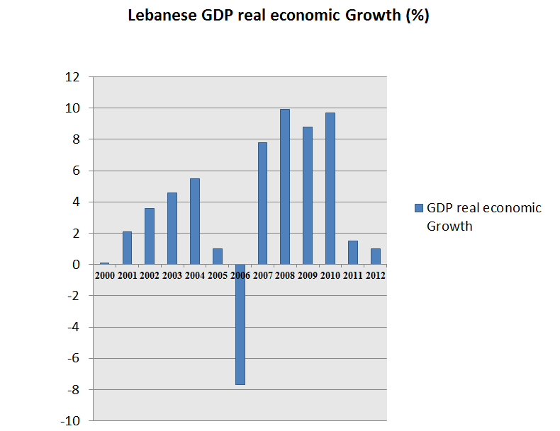 Economy of Lebanon